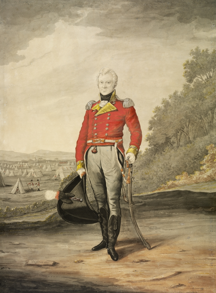 Lt. Col. George Johnston, 1810. Watercolour portrait by Robert Dighton (1752–1812) DescriptionEnglish portrait painter, printmaker and caricaturistDate of birth/death17521812Location of birth/deathLondonLondonAuthority control VIAF: 95720413 ULAN: 500006487 LCCN: n82078183 RKD: 22796 WorldCat .